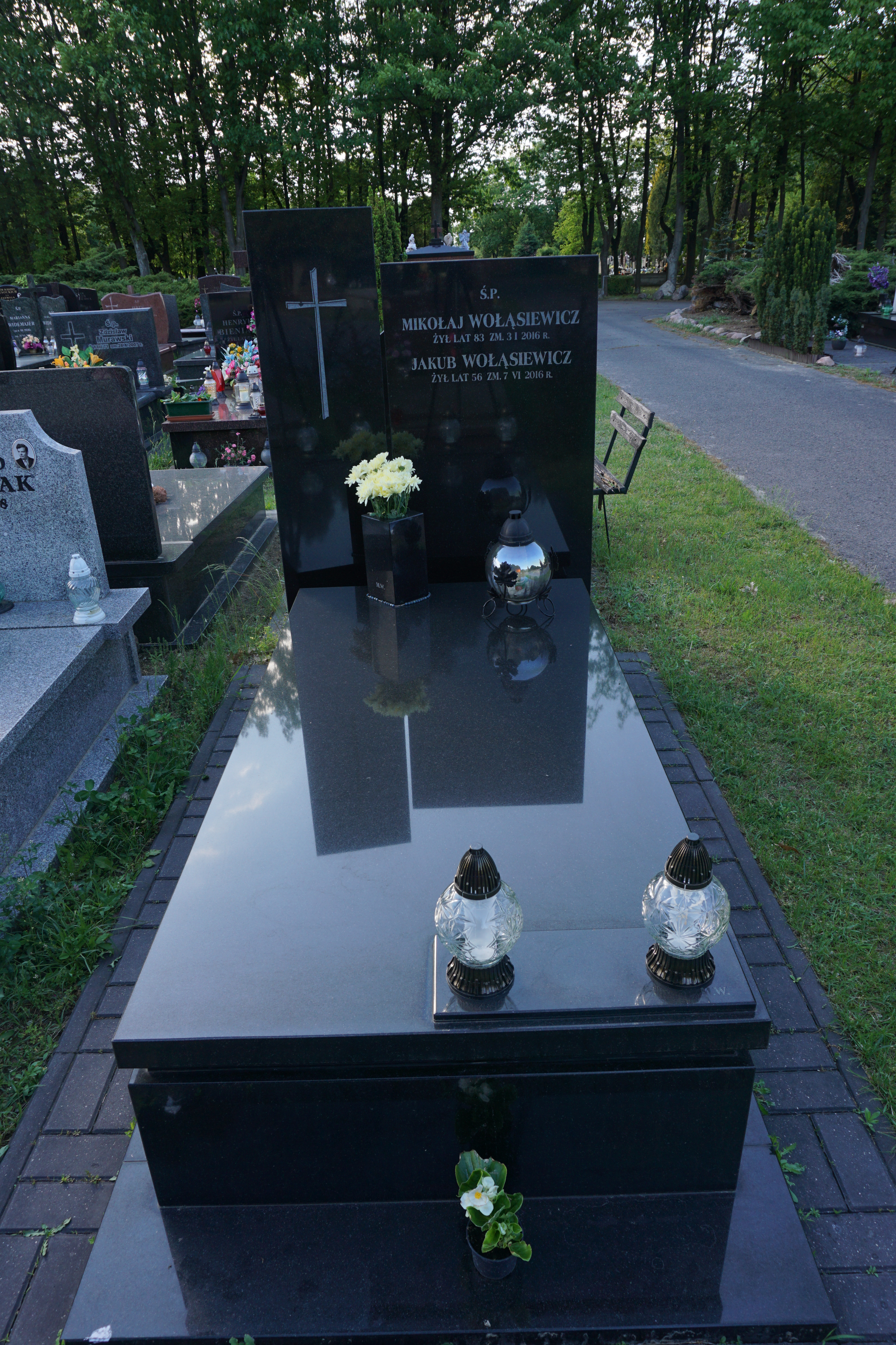 The grave of Jakub Wołąsiewicz at the North Municipal Cemetery in Warsaw (section B-VI-1, row 2, grave 1)